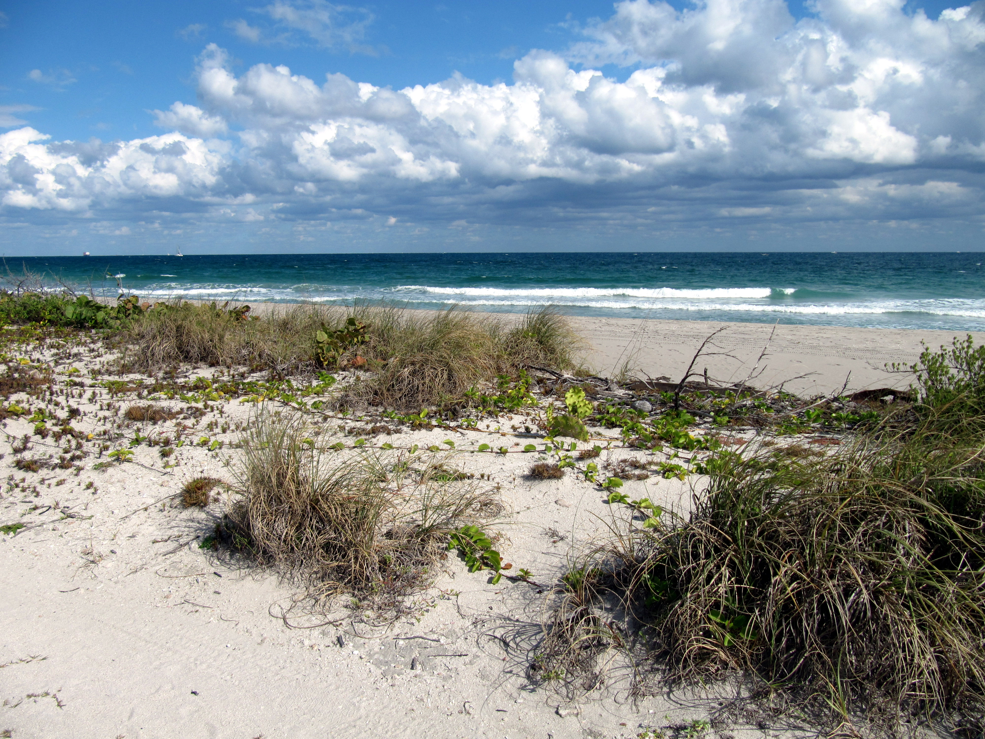 John U. Lloyd Beach State Park, Florida.